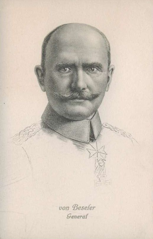 Hans Hartwig von Beseler